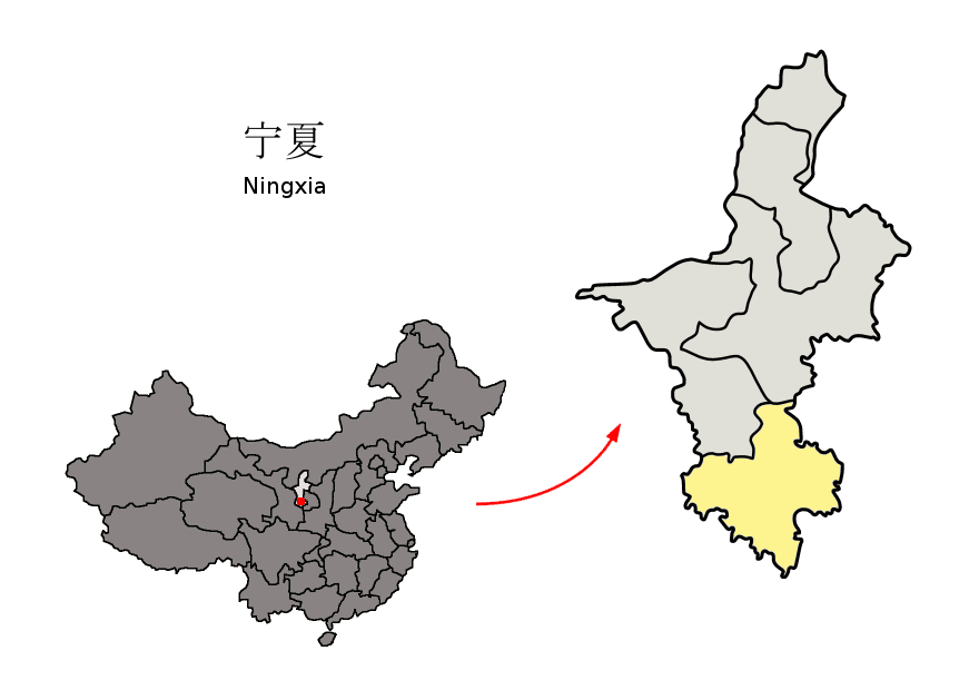 Location of Guyuan Prefecture (yellow) within Ningxia Autonomous Region of China Map drawn in november 2007 using various sources, mainly : Ningxia Autonomous Region administrative regions GIS data: 1:1M, County level, 1990 Ningxia Counties map from This map includes Zhongwei jurisdiction not shown on sources, and the related changes in Guyuan and Wuzhong jurisdictions borders.